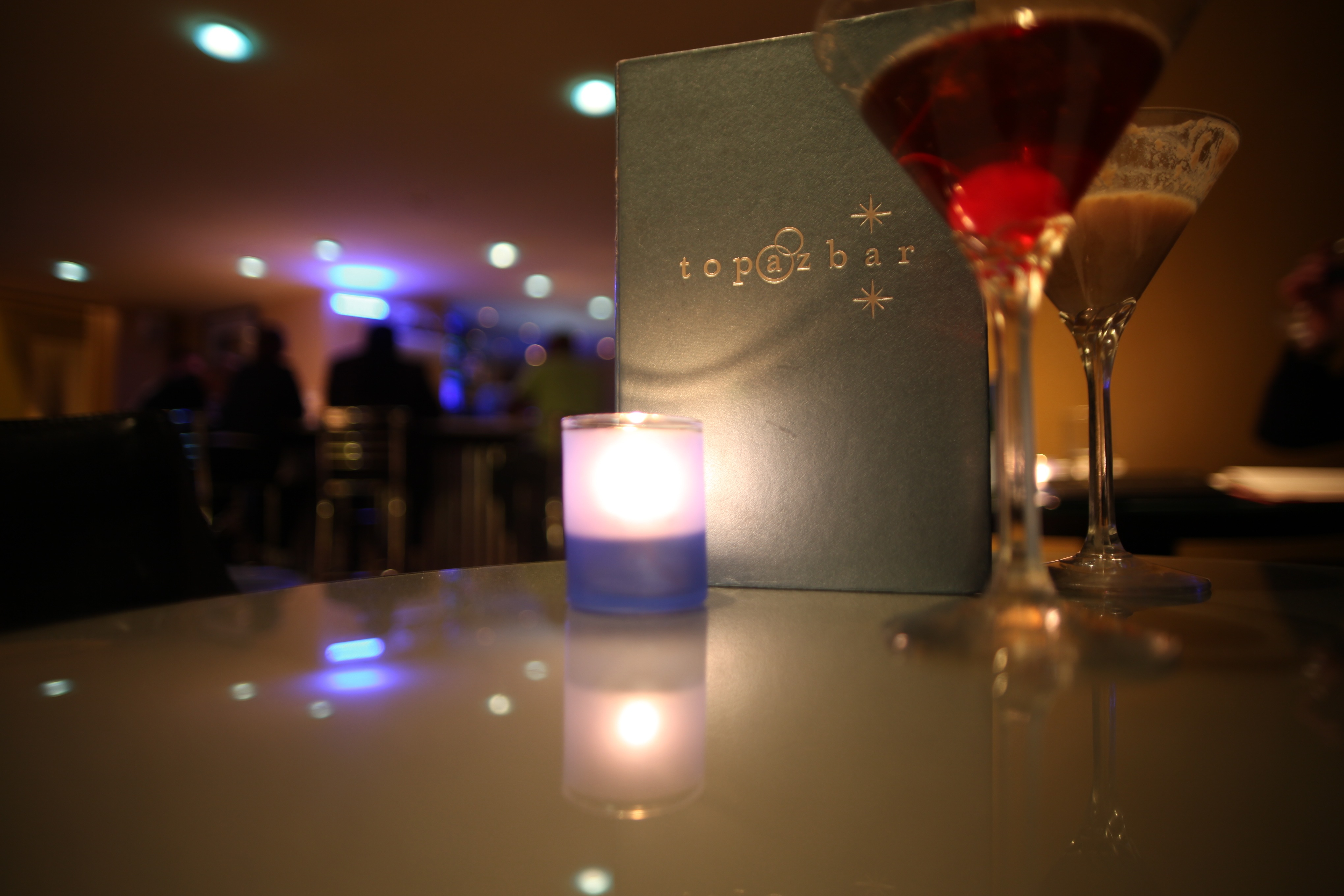 Topaz Hotel bar in DC